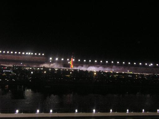 Smoke from a crash in the final laps of the Pepsi 400 at Daytona International Speedway in Daytona Beach, FL on July 2, 2005 (Picture taken on July 3).